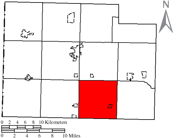 Made by the US Census and modified by myself